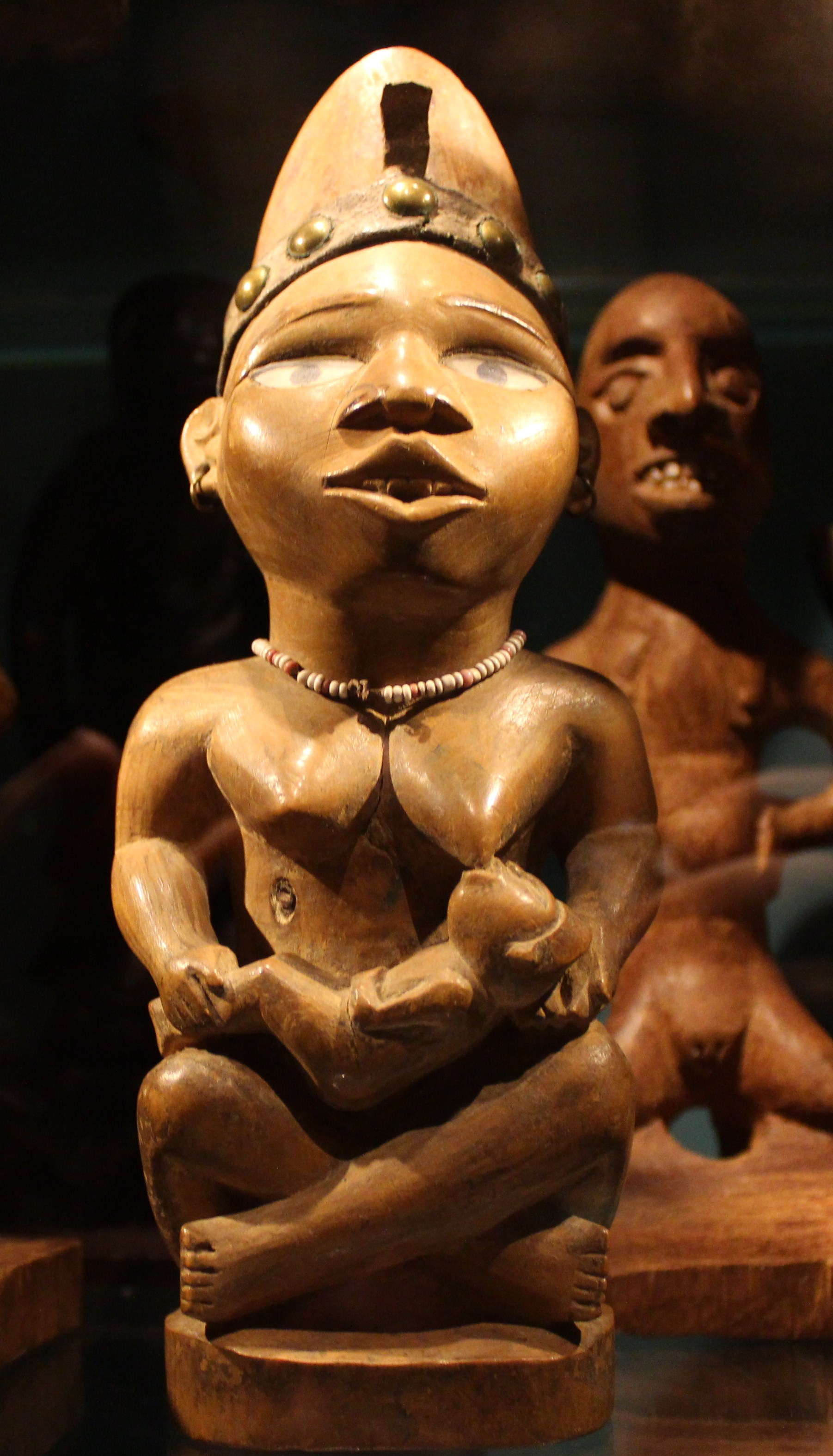 Objects at The Museum of Ethnography, Stockholm, Sweden This is a photo of an artwork at the Museum of Ethnography in Sweden with the identifier: 1894.02.0056